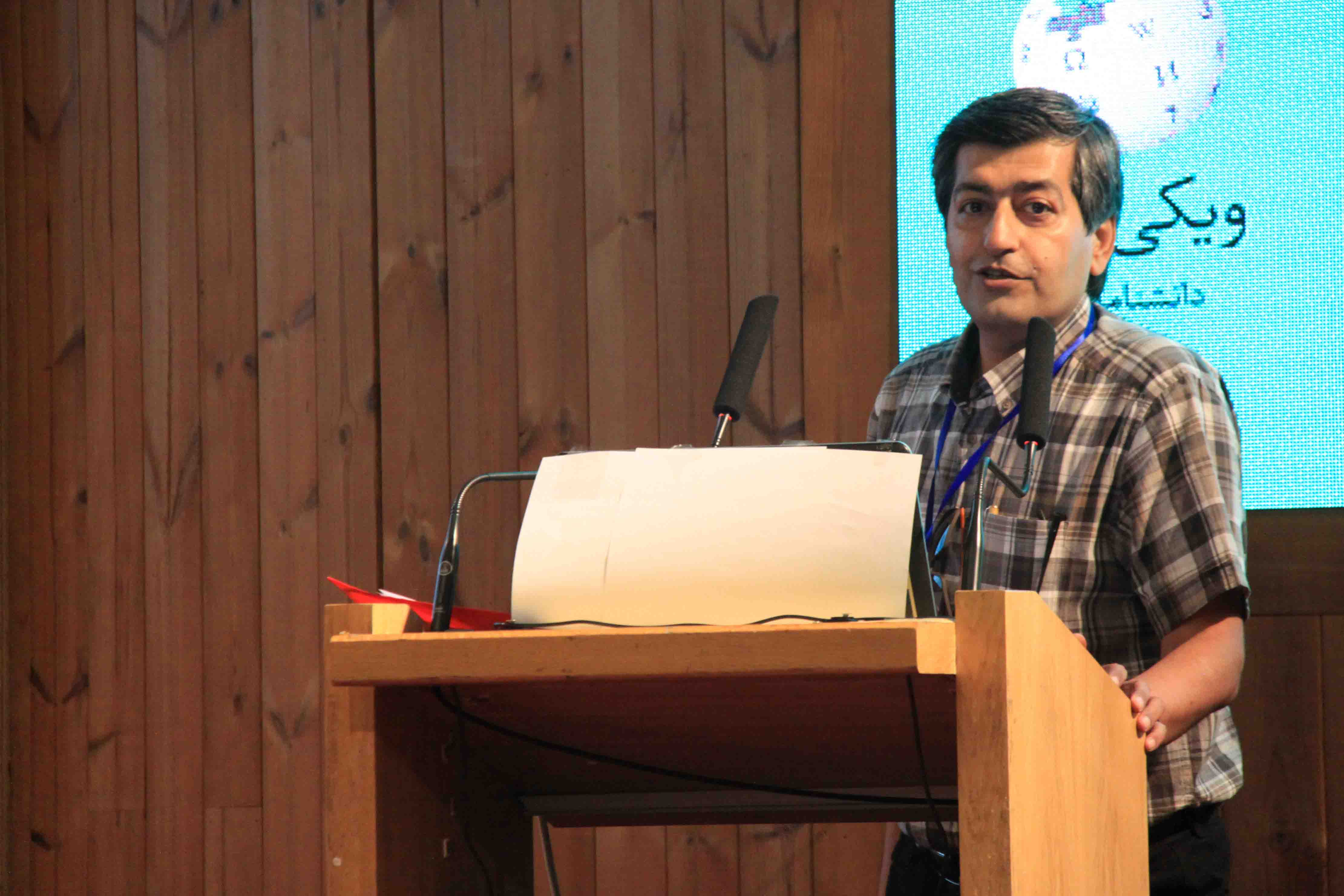 Farsi Wikipedia celebrates its 500K article milestone in Iranian national library in Tehran.